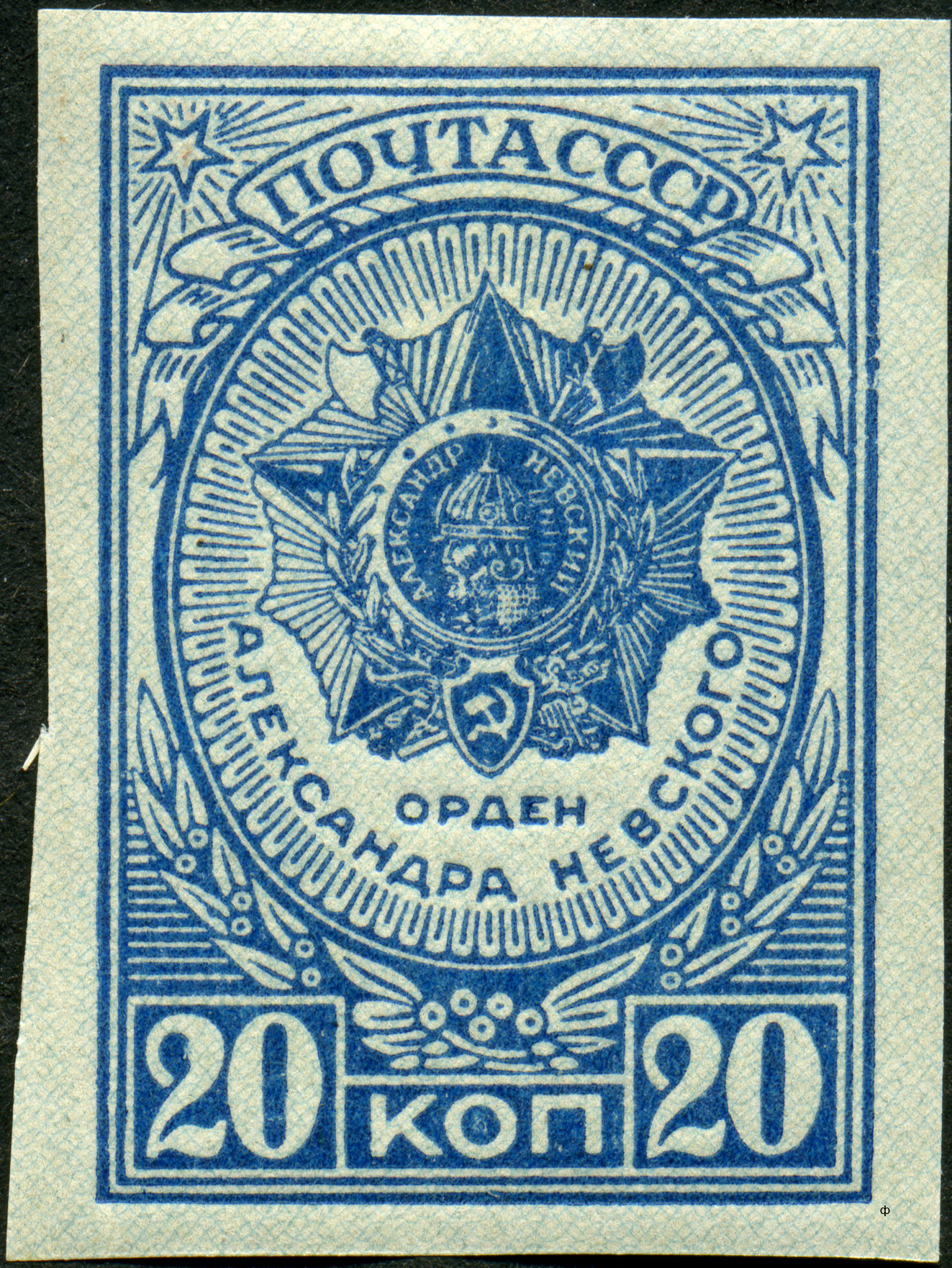 A USSR stamp, Awards of the Soviet Union